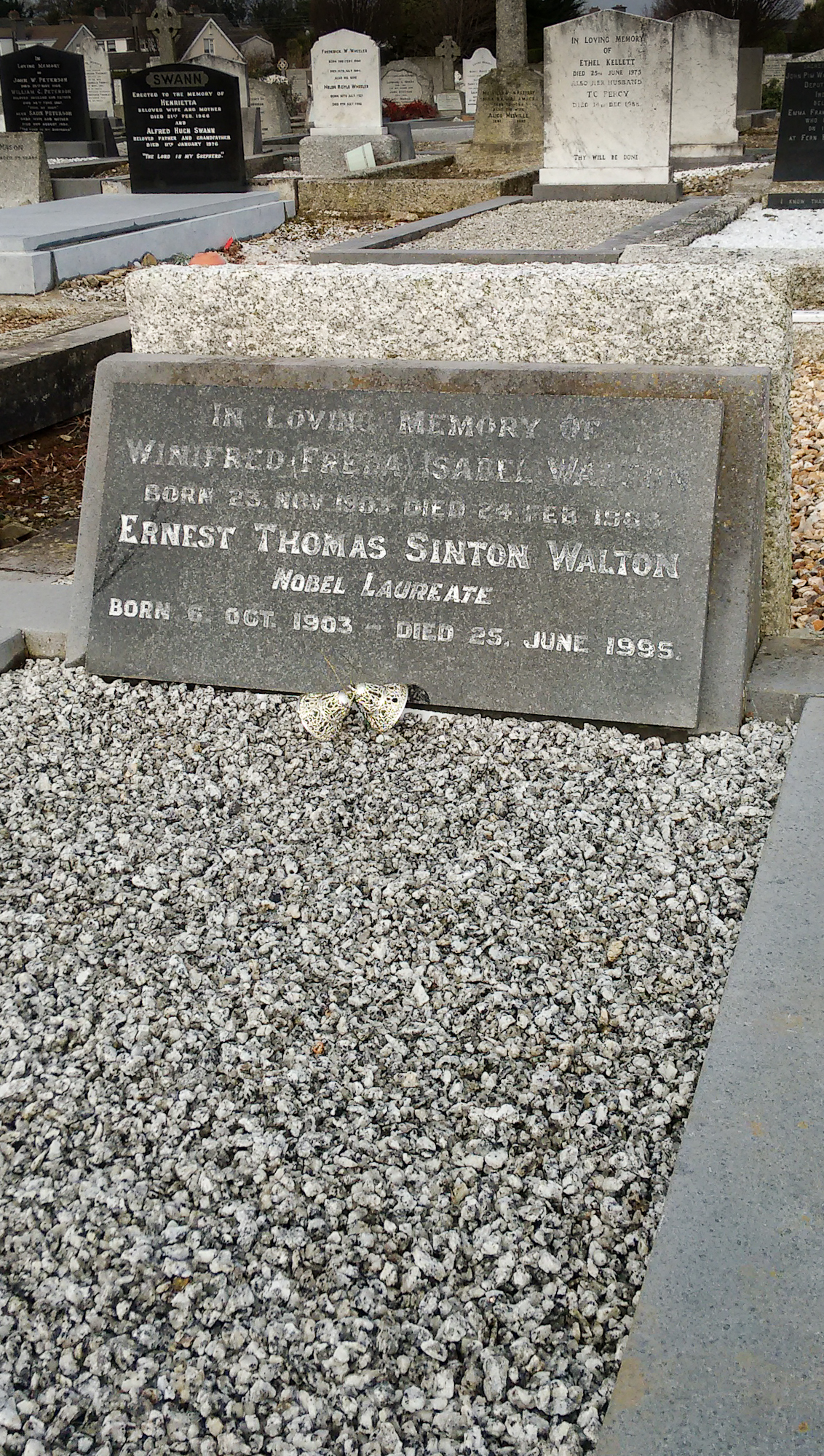 Ernest Walton Grave